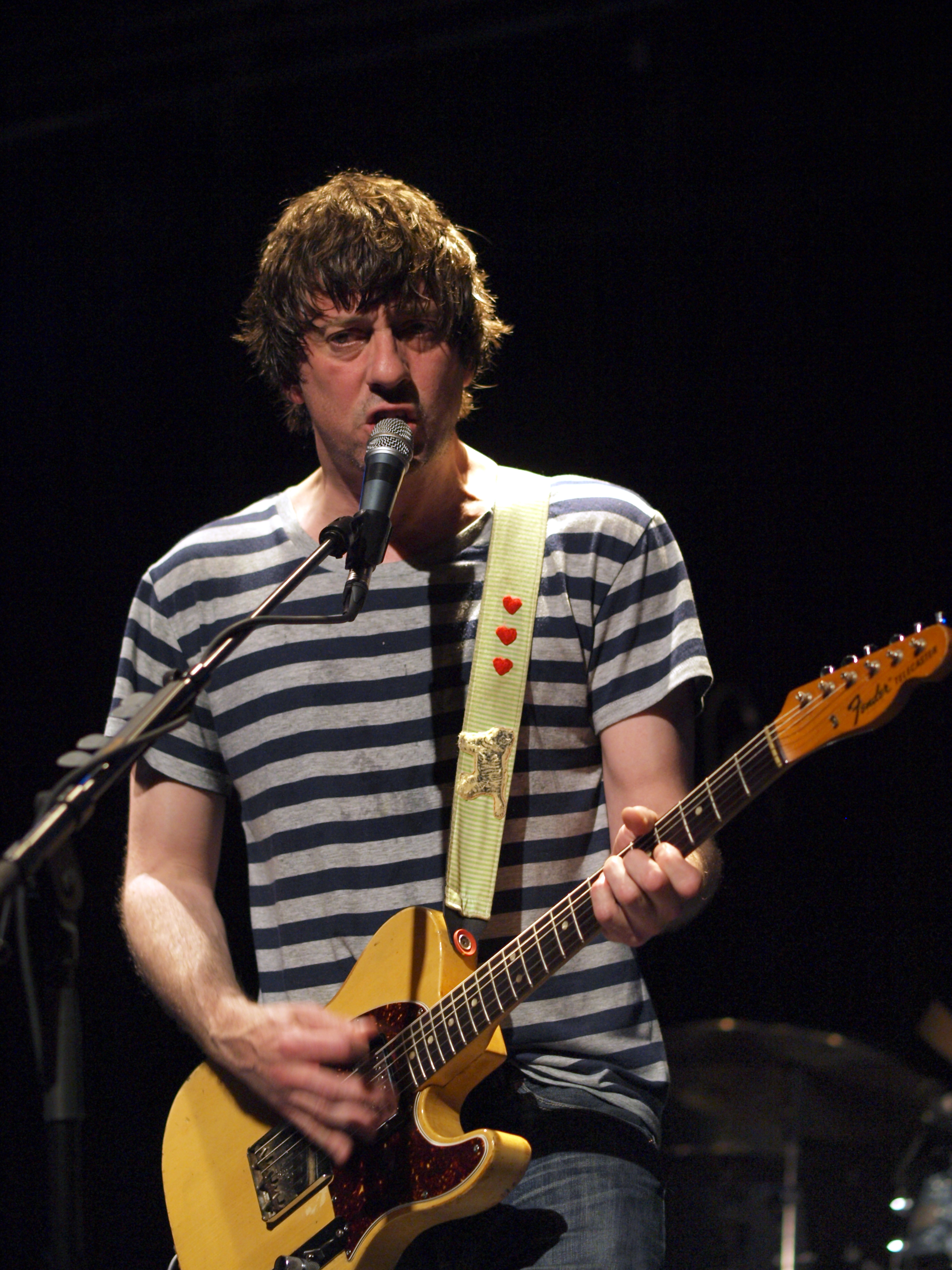 Graham Coxon @ Falmouth